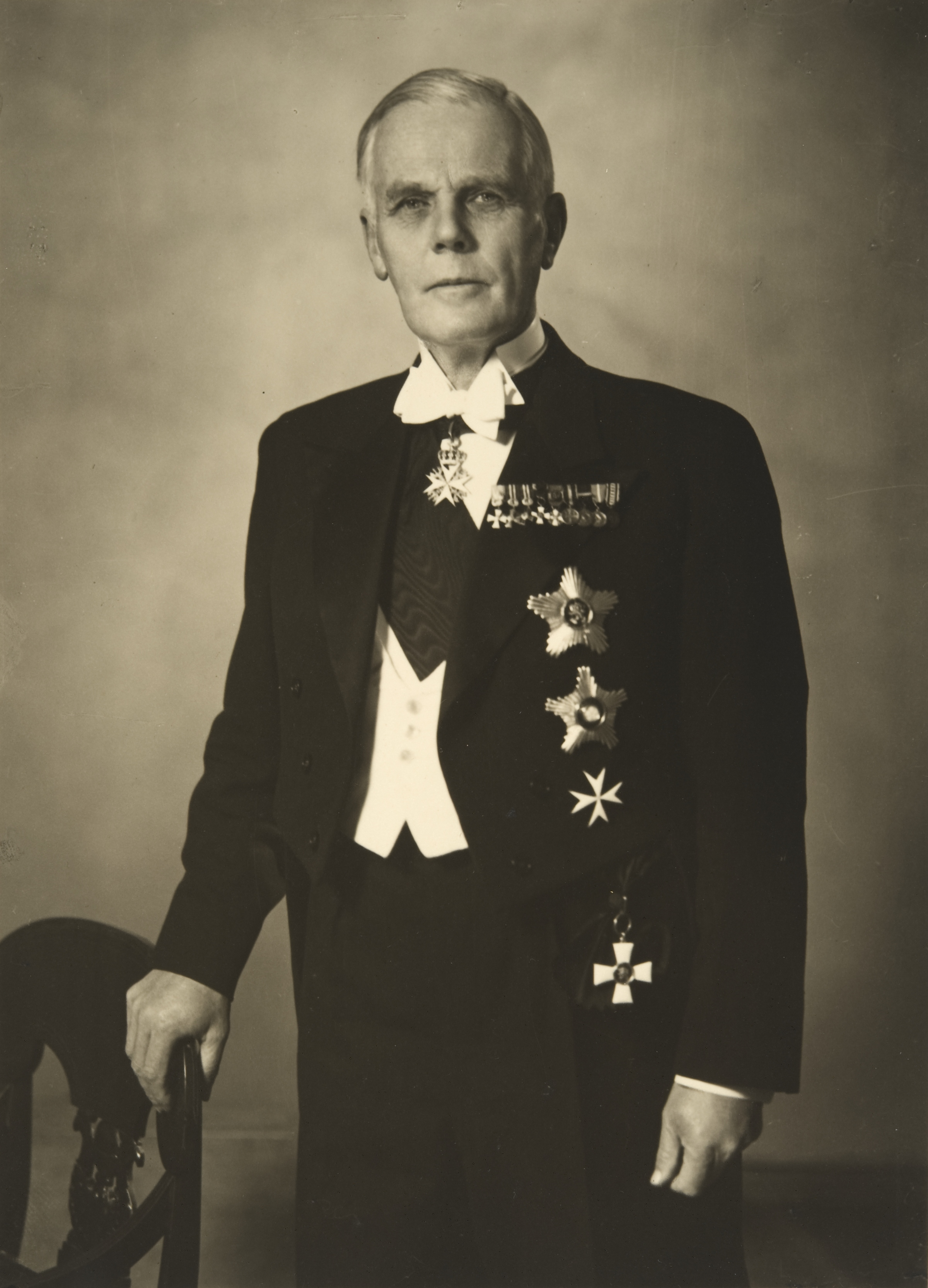 Photograph of the Finnish industrialist Ernst Wrede (1886–1952).